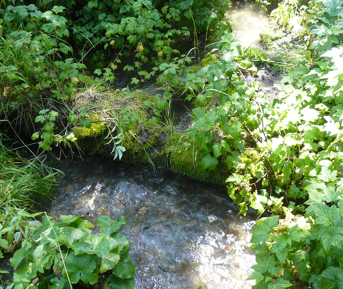 Agajry river